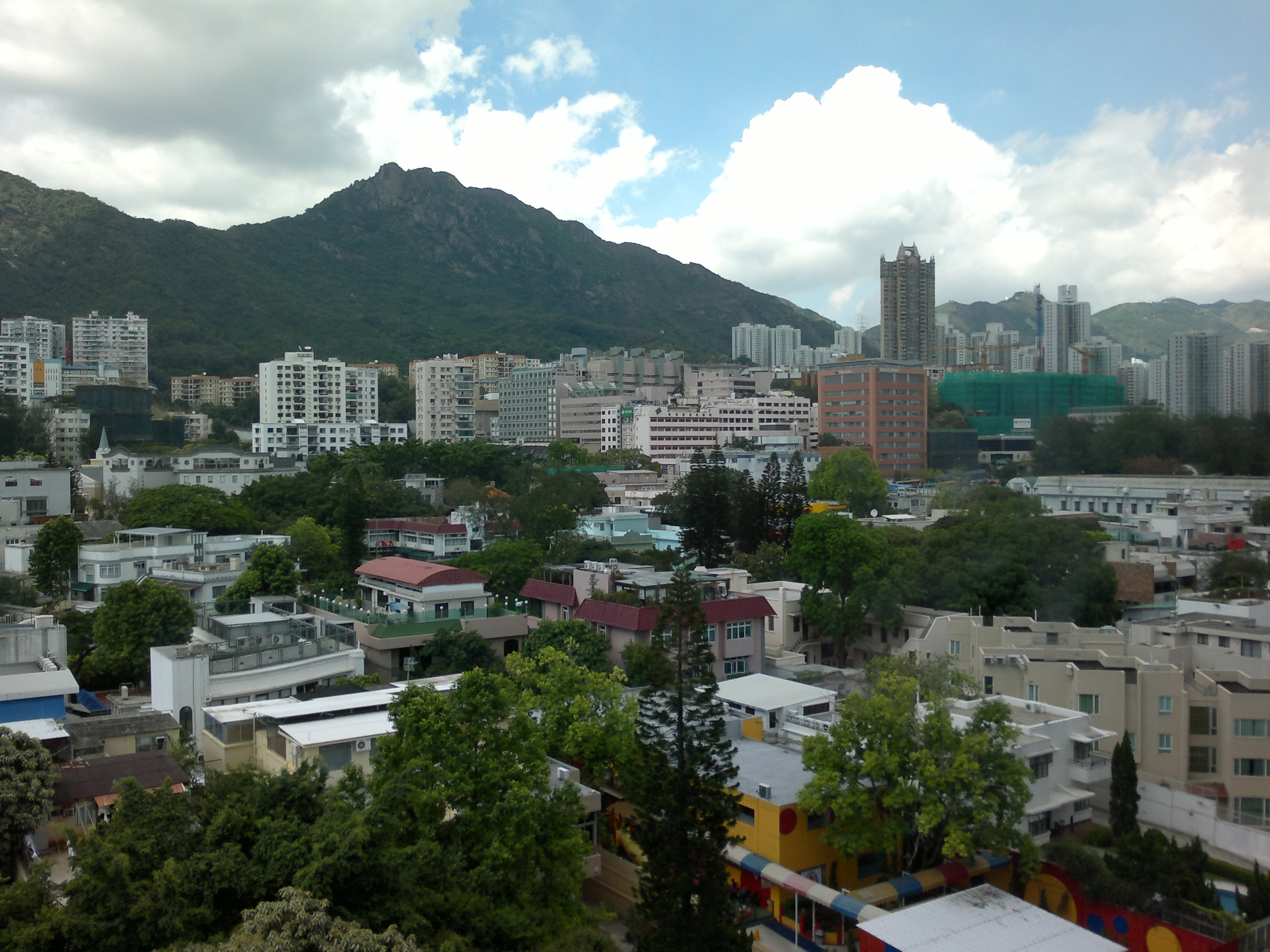 Kowloon Tong North Area